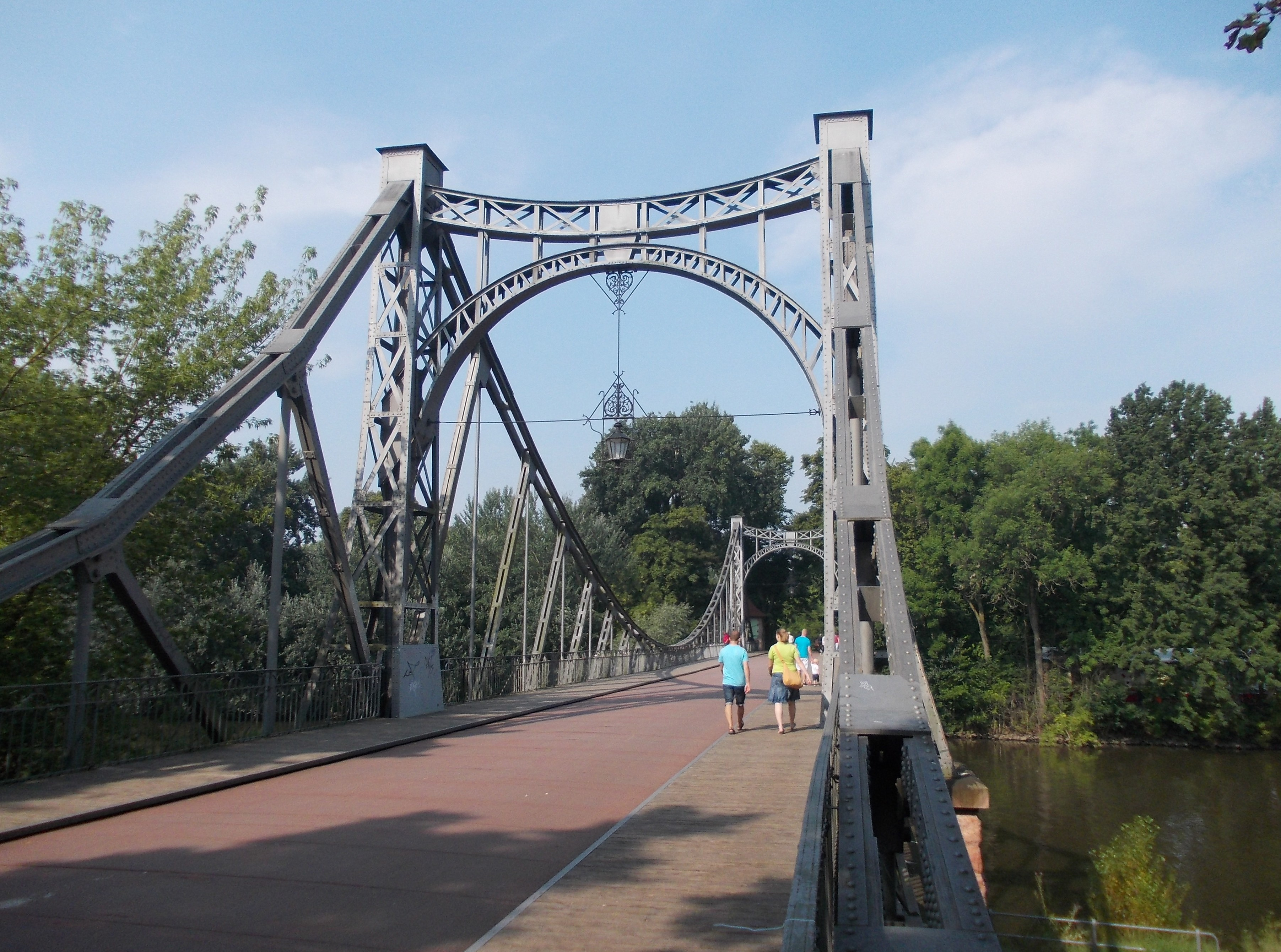 Peissnitz Bridge in Halle/Saale (Saxony-Anhalt)